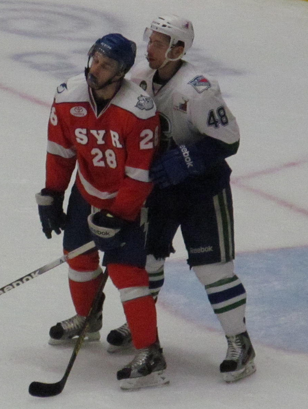 Brett Connolly(left) and Michael Vernace (right)